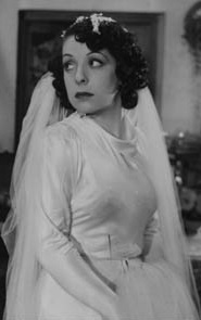 Nélida Franco- actriz argentina